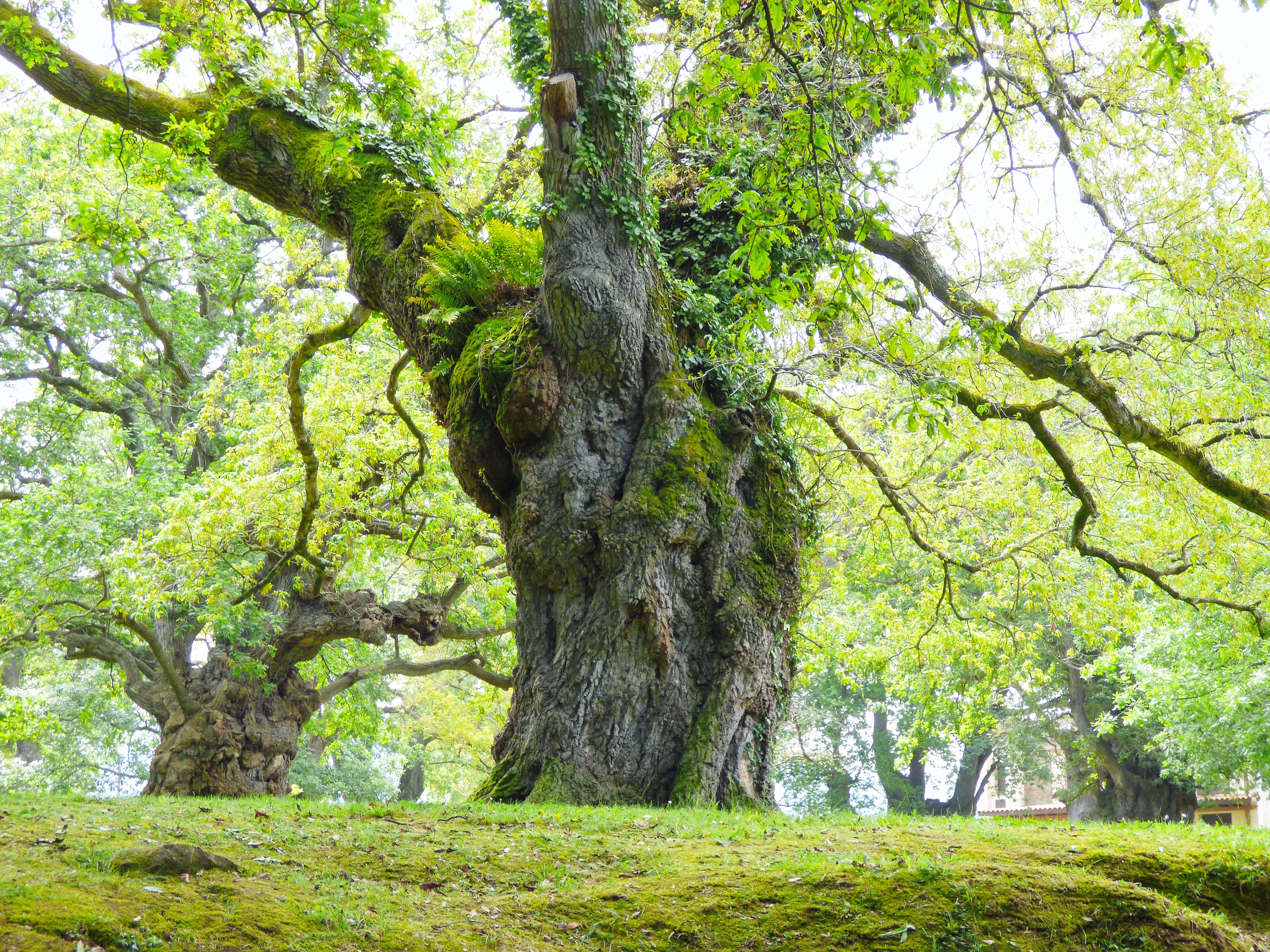 This is a photography of a Site of Community Importance in Spain with the ID: ES1200038. Natura2000 entry, EEA entry